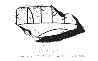 The runestone Sö 267. The inscription reads [hulfa... ...]. In English "Holmfastr ..."